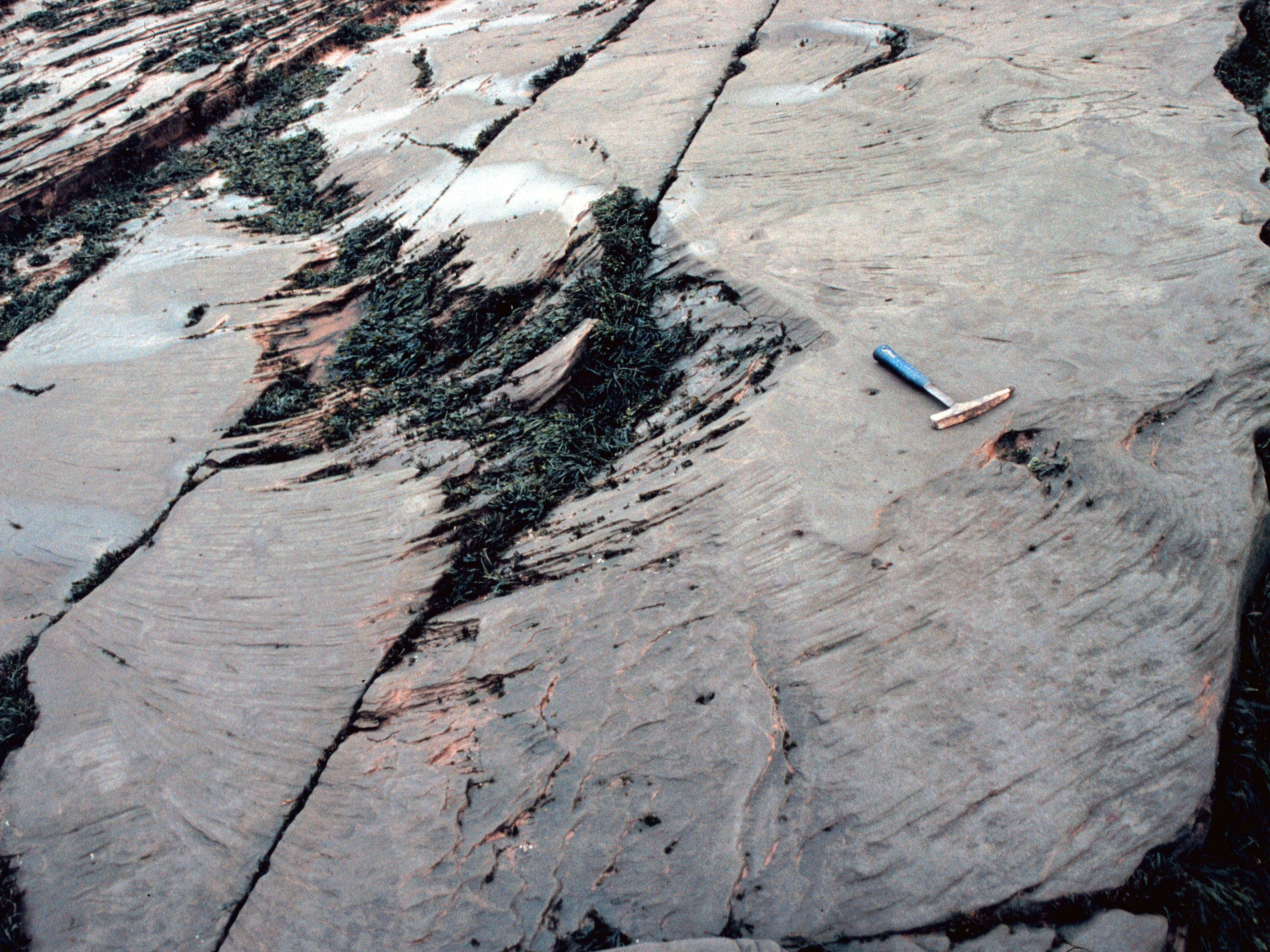 Trough cross-bedding in the Lower Cove Formation (Pennsylvanian), Cumberland Basin, Nova Scotia. Image shows bedding plane view; paleoflow direction is toward the top left corner of the frame.